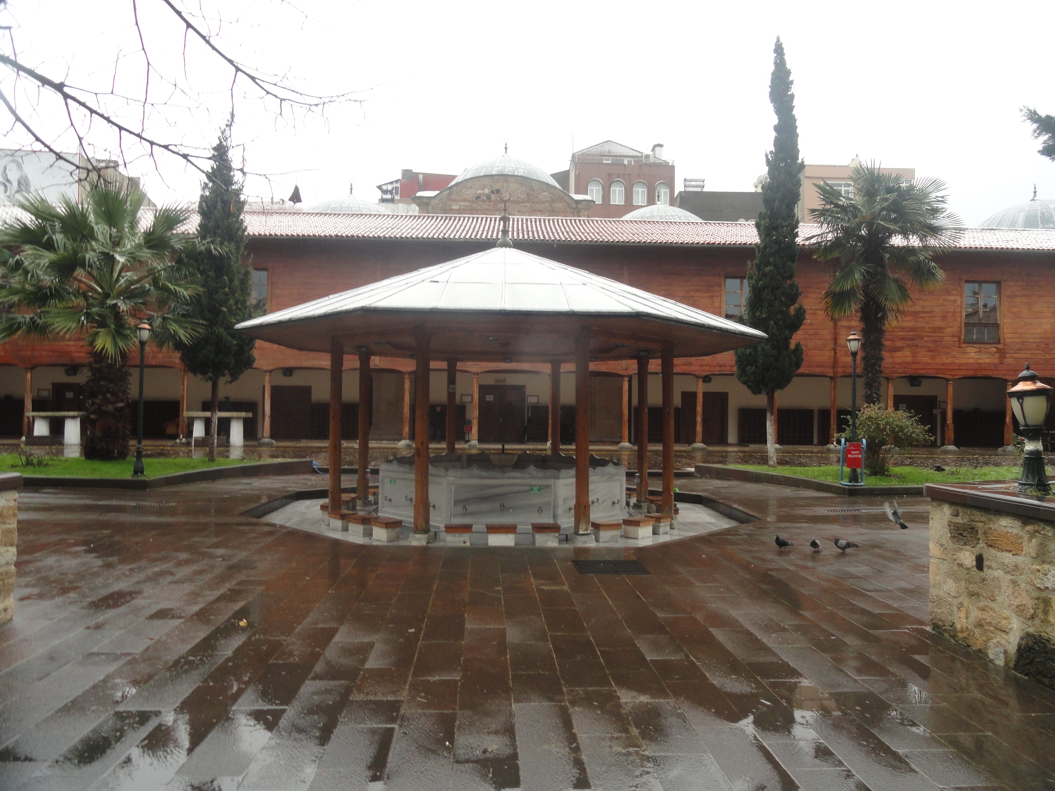 Alaeddin Mosque, Sinop